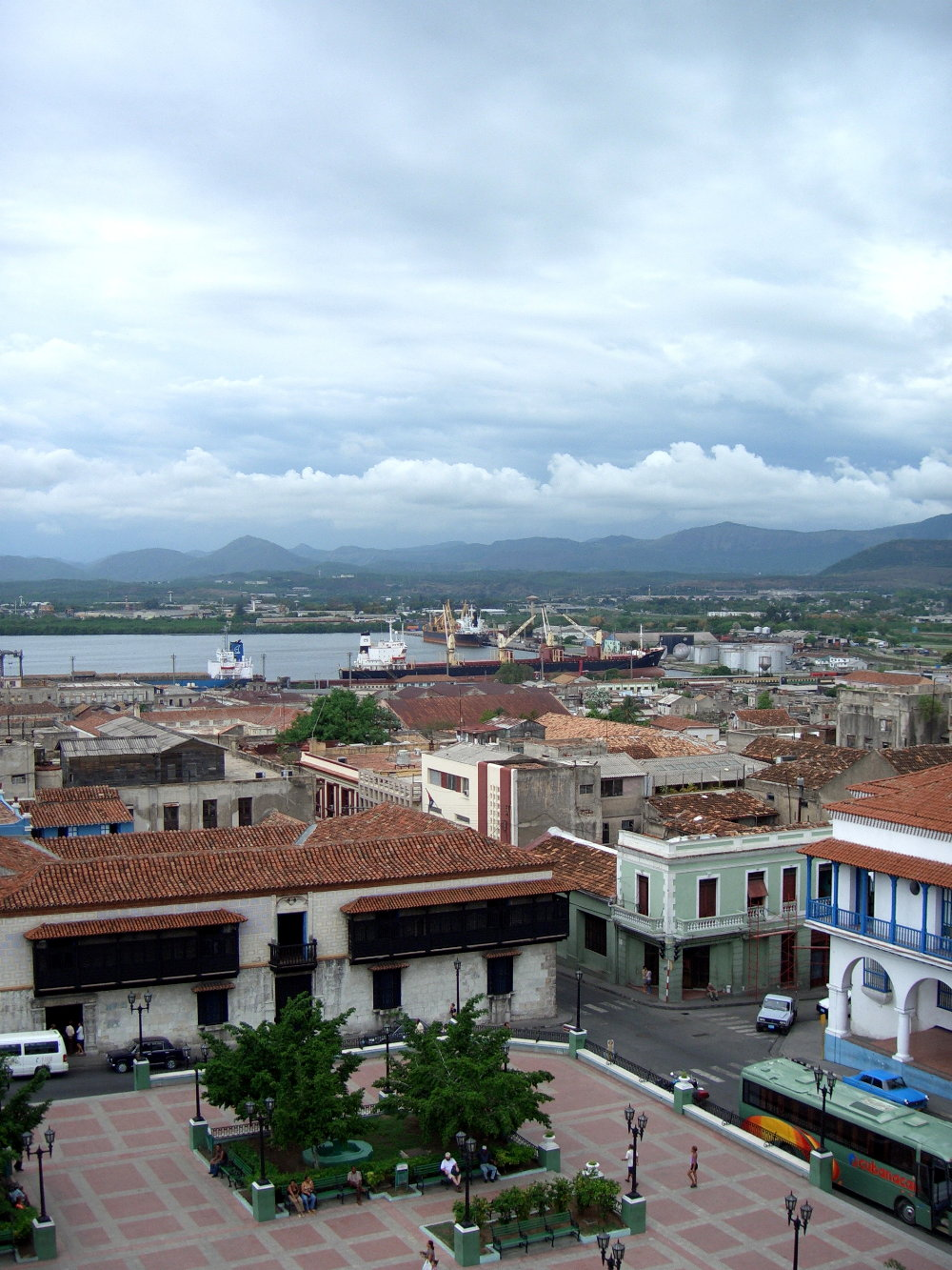 Santiago de Cuba from above.